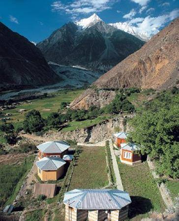 Charming view with Bagrote Sarai Hotel and Resturent Gilgit (diran view Resort Gilgit pakistan )